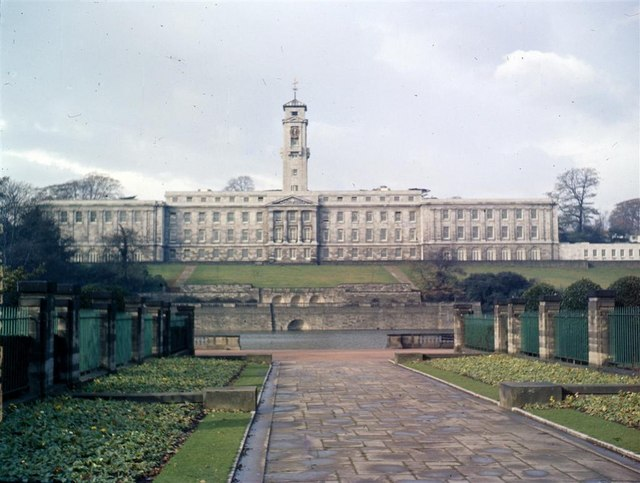 University of Nottingham: the Trent building, seen from across the lake at Highfields in 1962.